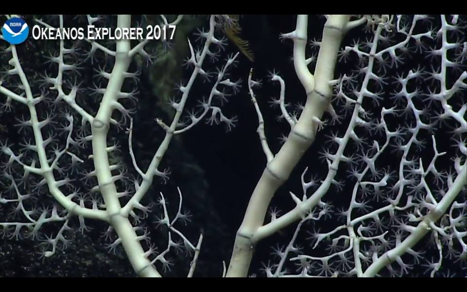 "Bamboo coral" (family Isididae) observed in the abyss by the NOAA Okeanos Explorer mission "2017 American Samoa Expedition: Suesuega o le Moana o Amerika Samoa".